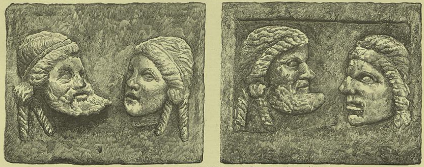 Bas-relief of a roman grave, part of a ruin complex in the area of Quinta de Torre de Aires, near the city of Tavira, in southern Portugal. According to archaeologist Estácio da Veiga, this ruins were part of the ancient city of Balsa. This image was published on the Occidente magazine No. 96, of 21st August 1881, scanned by the Hemeroteca Municipal de Lisboa.